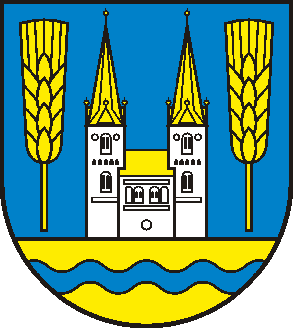 Coat of arms of Jerichow